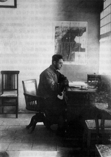 Gu Jiegang in the Yu Gong Society's chairman office in 1937